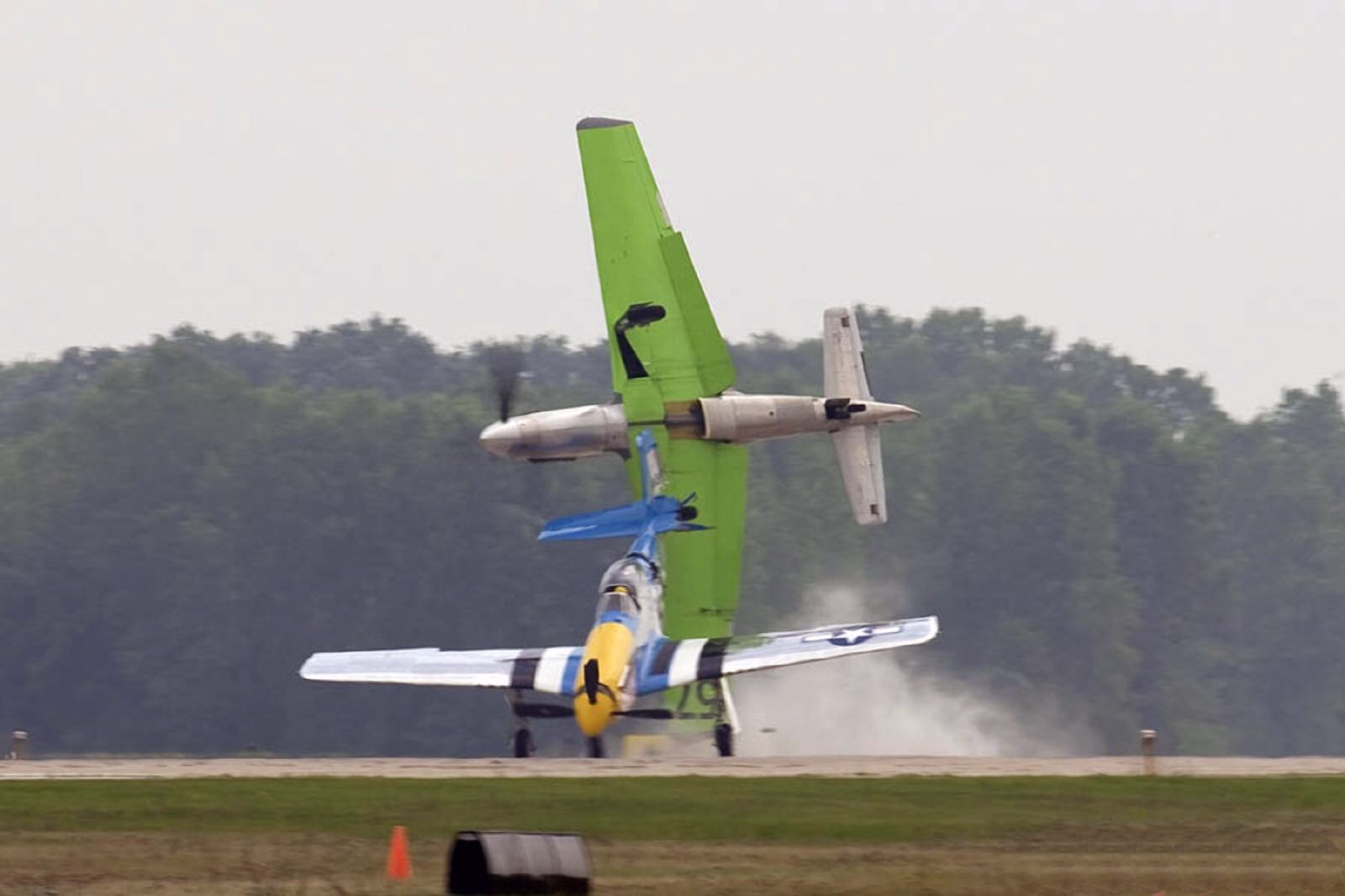 Two P-51 Mustangs approached the southern end of Runway 18/36 at AirVenture Oshkosh for a formation landing when the propeller of the P-51A in the rear caught the tail of the P-51D in front. The pilot of the P-51D that ended up on its nose was able to walk away from the crash, the pilot of the P-51A was killed.